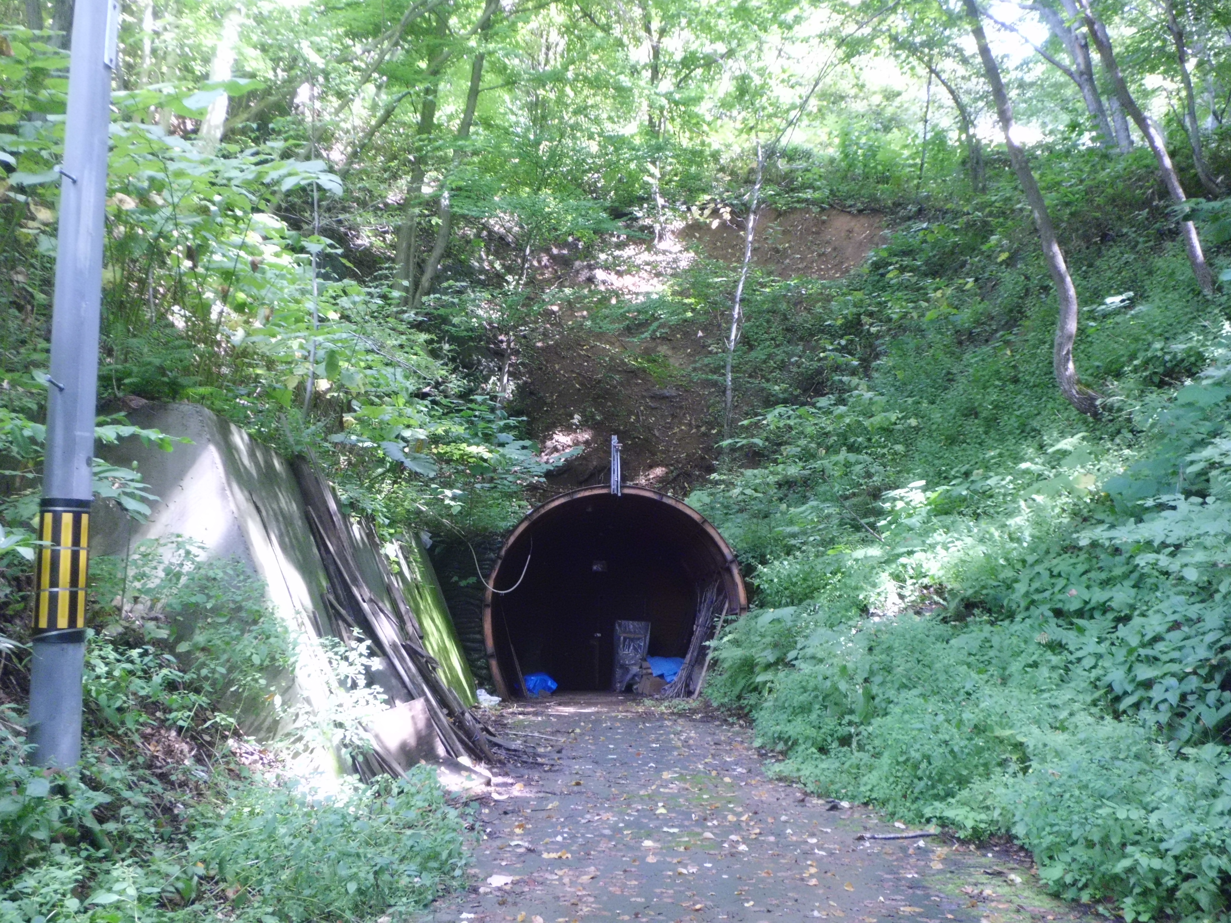 Old Kobetsuzawa Tunnel looking from Kobetsuzawa side.